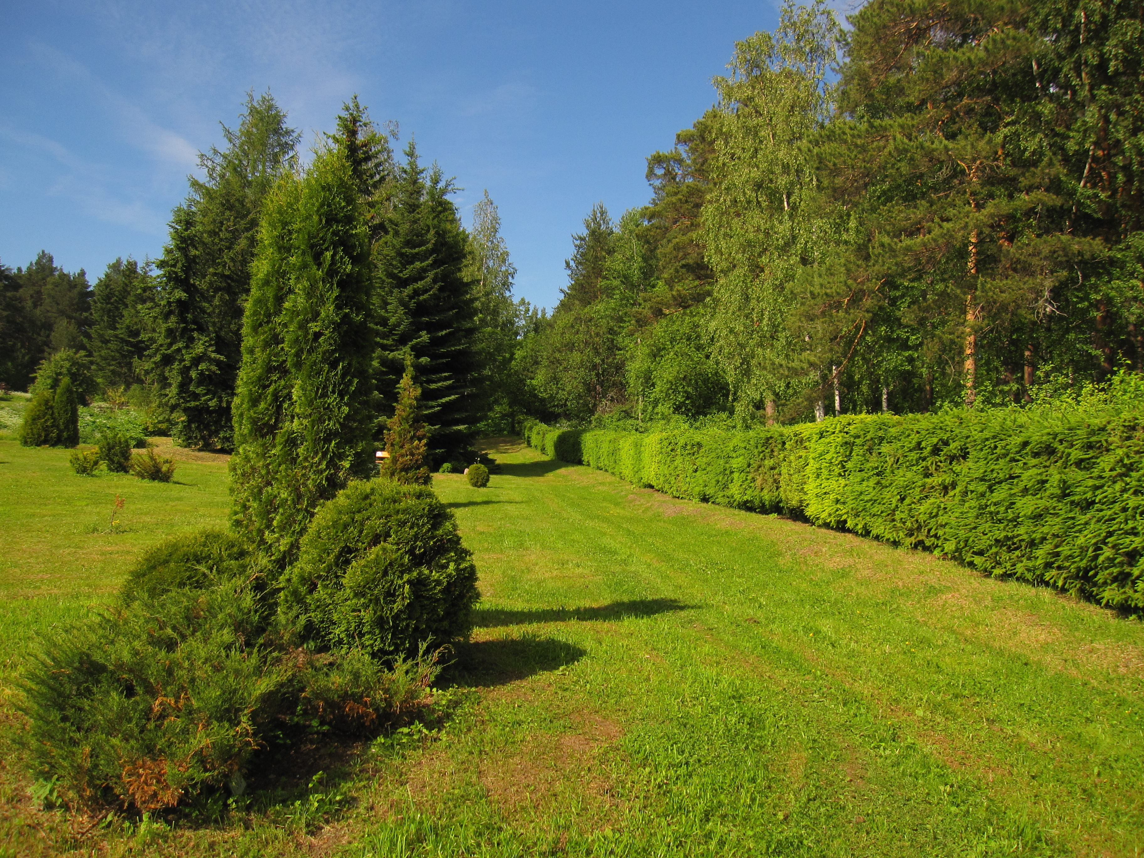 The central part of the garden in summer (june)